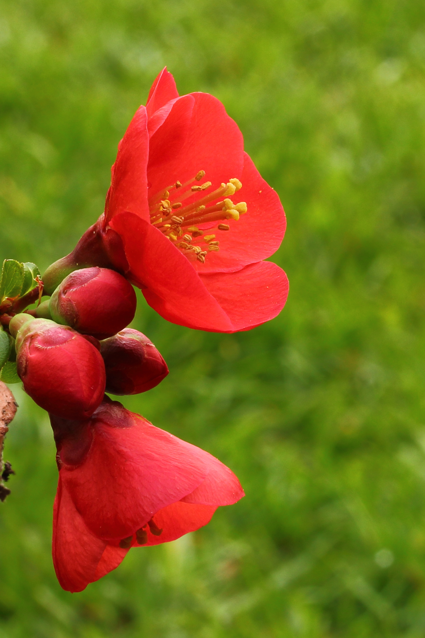 Flower of Chaenomeles x superba 'nicolina' (chinese kwee).